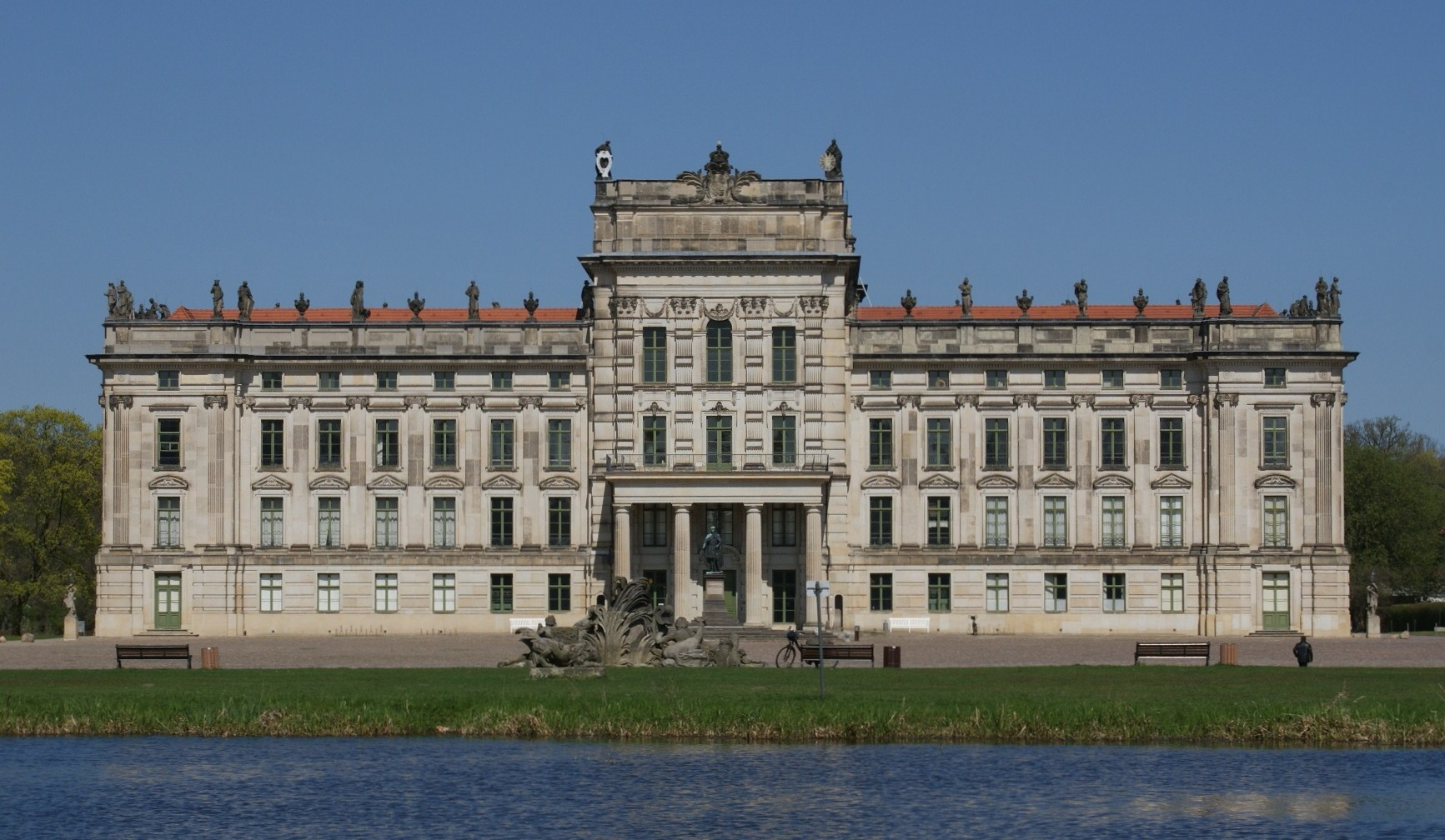 Ludwigslust Castle, View from the courtyard